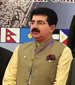 Sadiq Sanjrani at the Assembly, Chairman of the Senate of Pakistan, at the Assembly of Asian Parlaments (APA) in Gwadar Pakistan